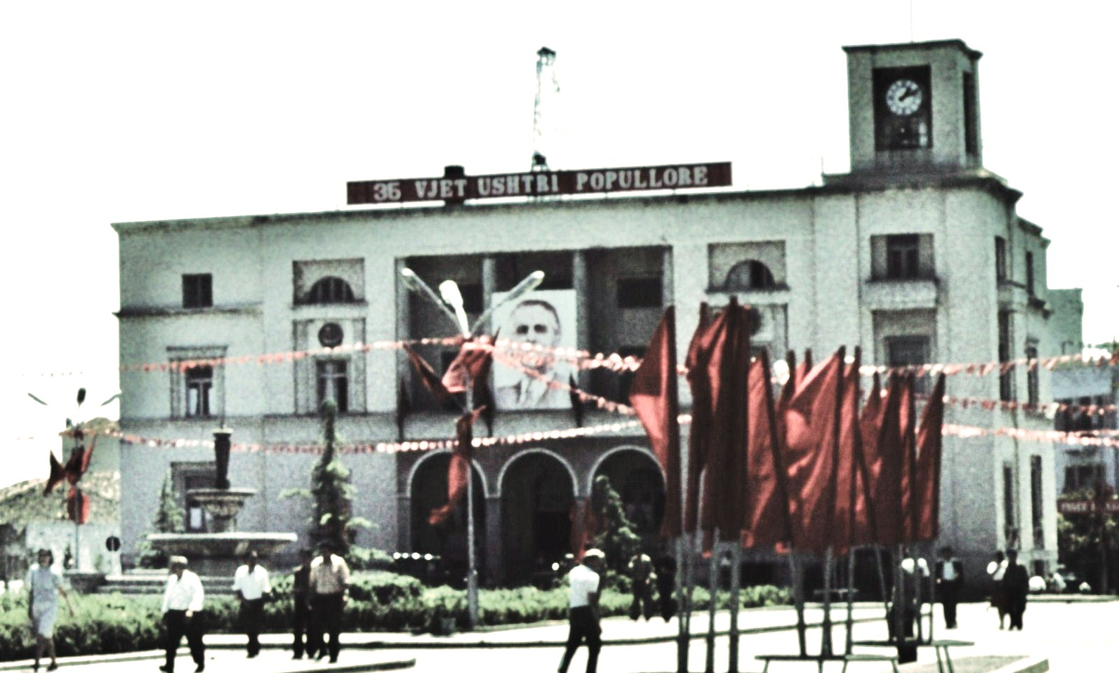 Official building in Durrës, Albania